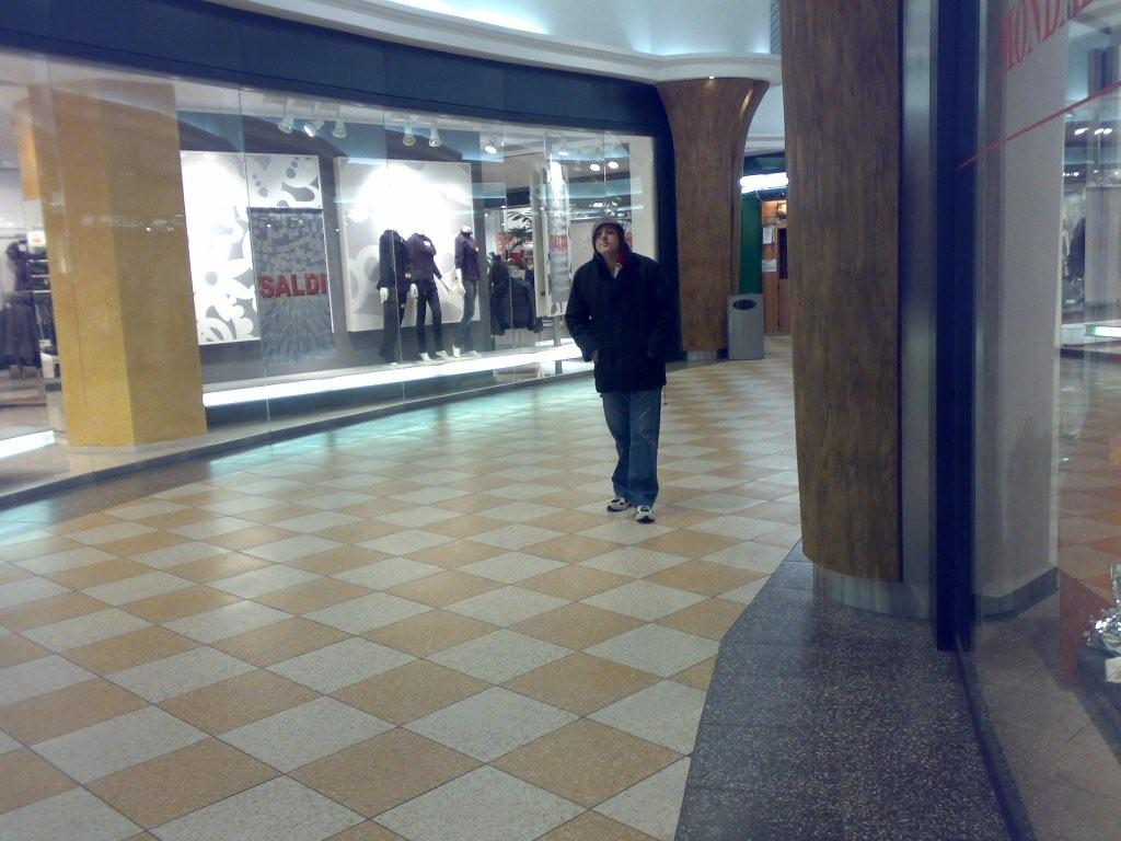 a shopping center in vimercate